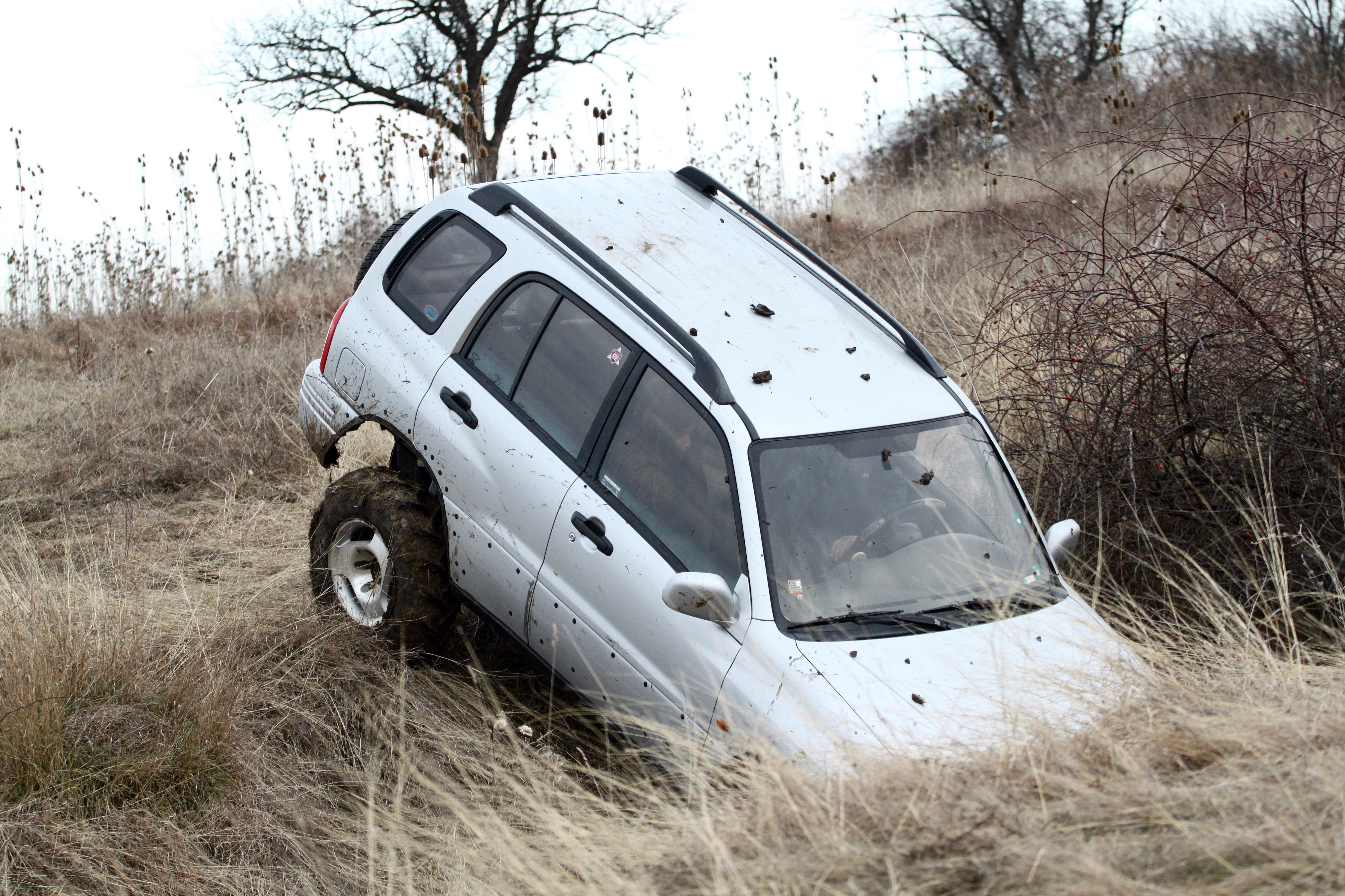 Suzuki vitara in off-roading, near Slivnitsa, Bulgaria